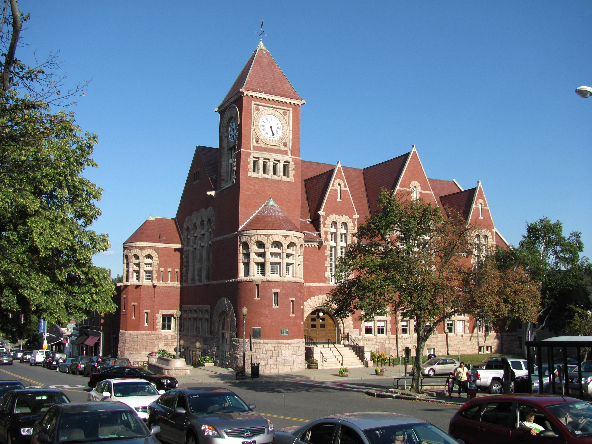 Town Hall, Amherst Massachusetts, August 2010